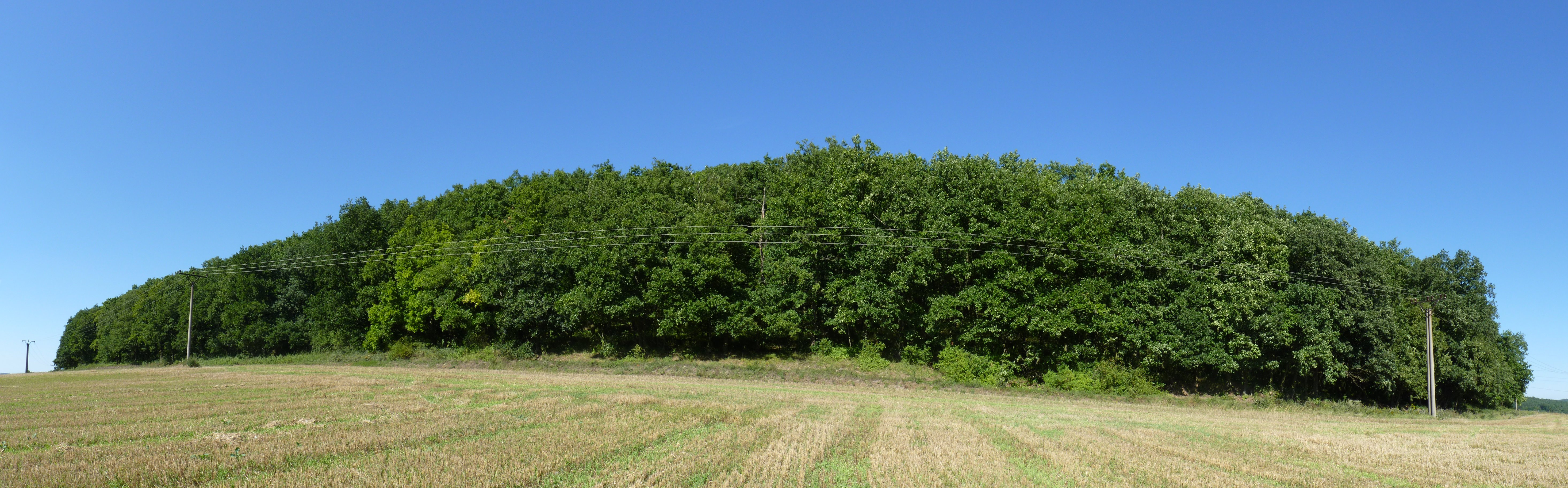 Natural monument Šiberná, Brno-Country District, South Moravian Region, Czech Republic